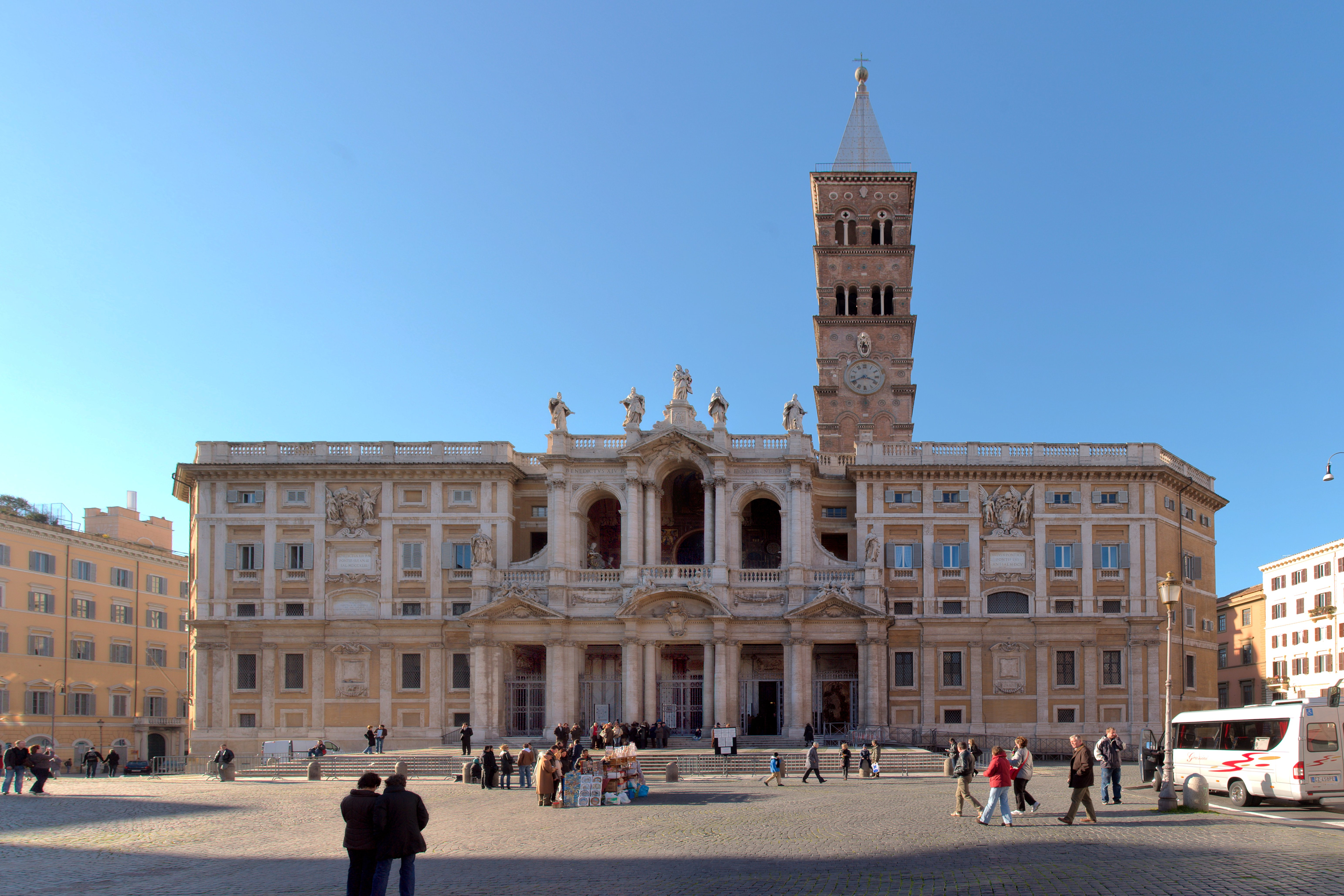 Frontview of Santa Maria Maggiore in Rome. Panaorama from 3 images.